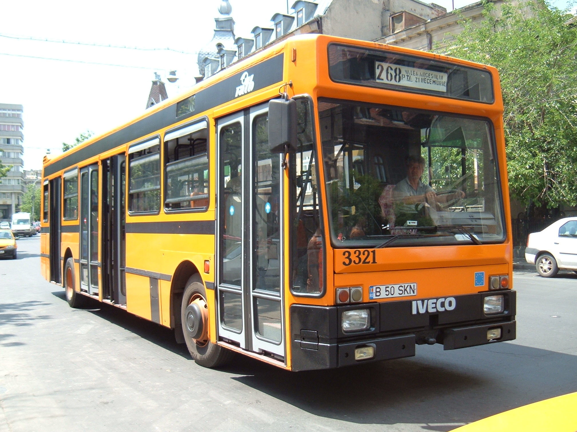 Public bus in Bucharest, Romania (IVECO TurboCity 480.12.21 type). Year built 1990. RATB București company.